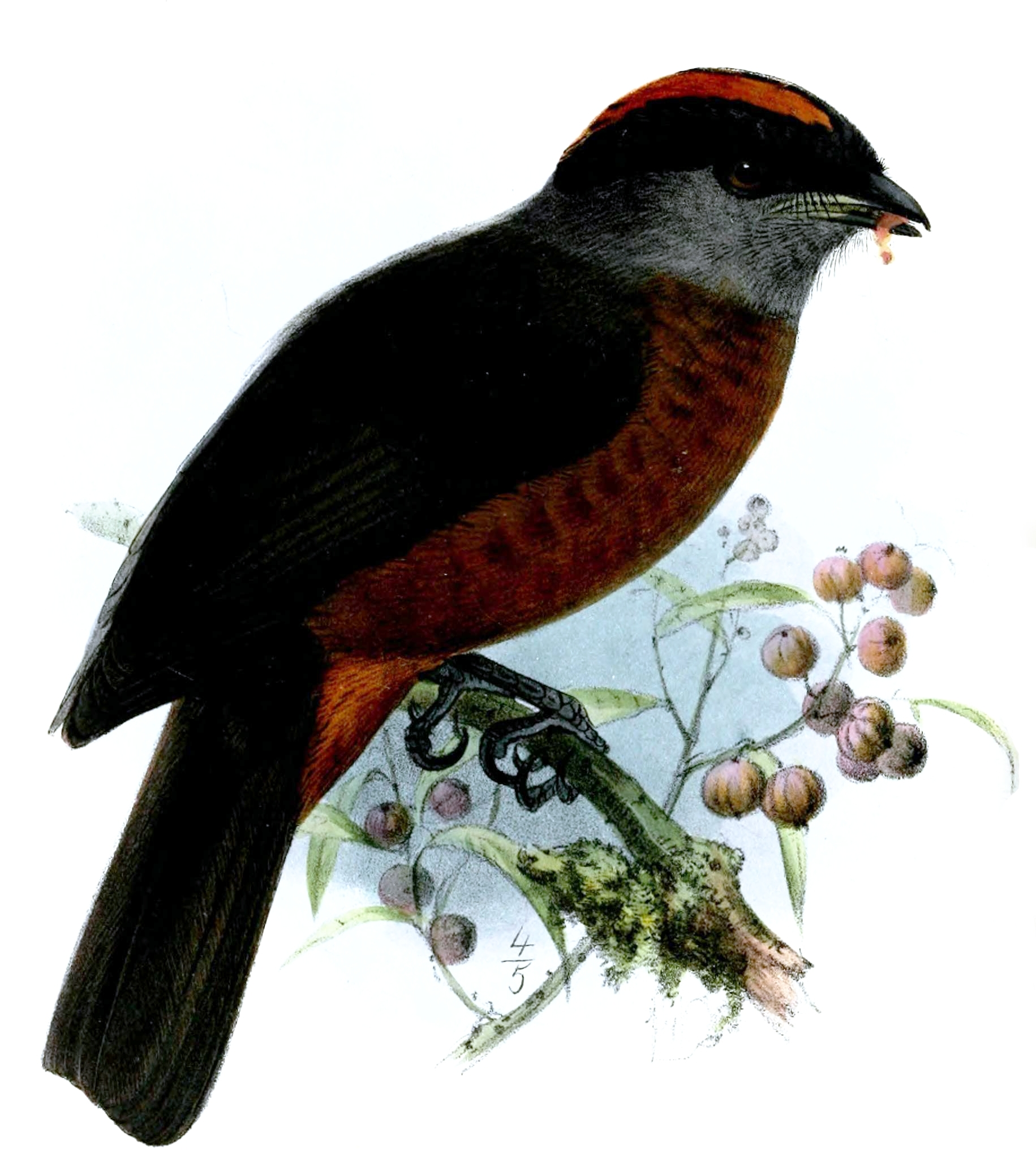 Dolyornis sclateri = Doliornis sclateri